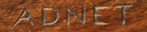 Signature of French designer Jacques Adnet